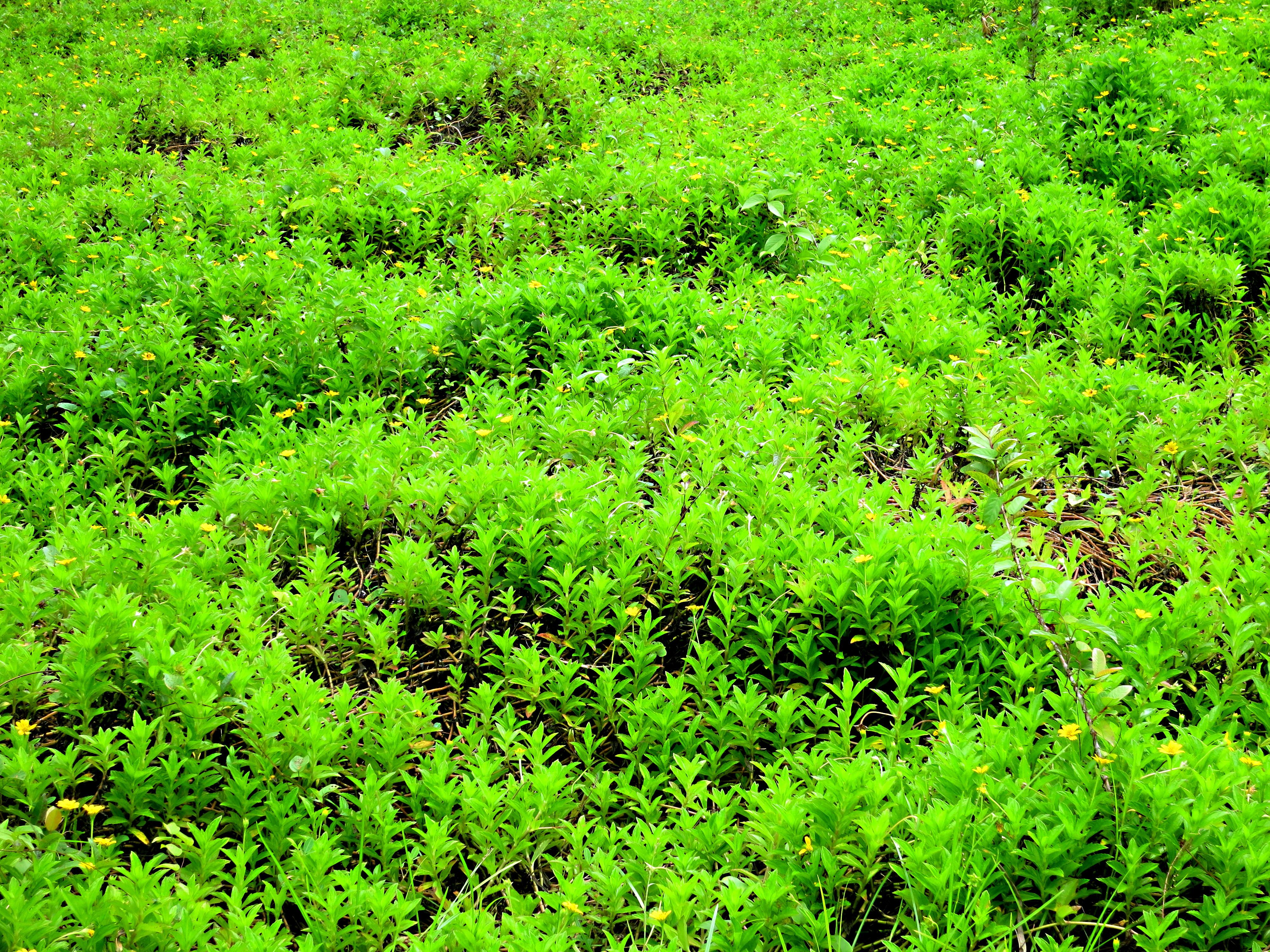 Kerala,India